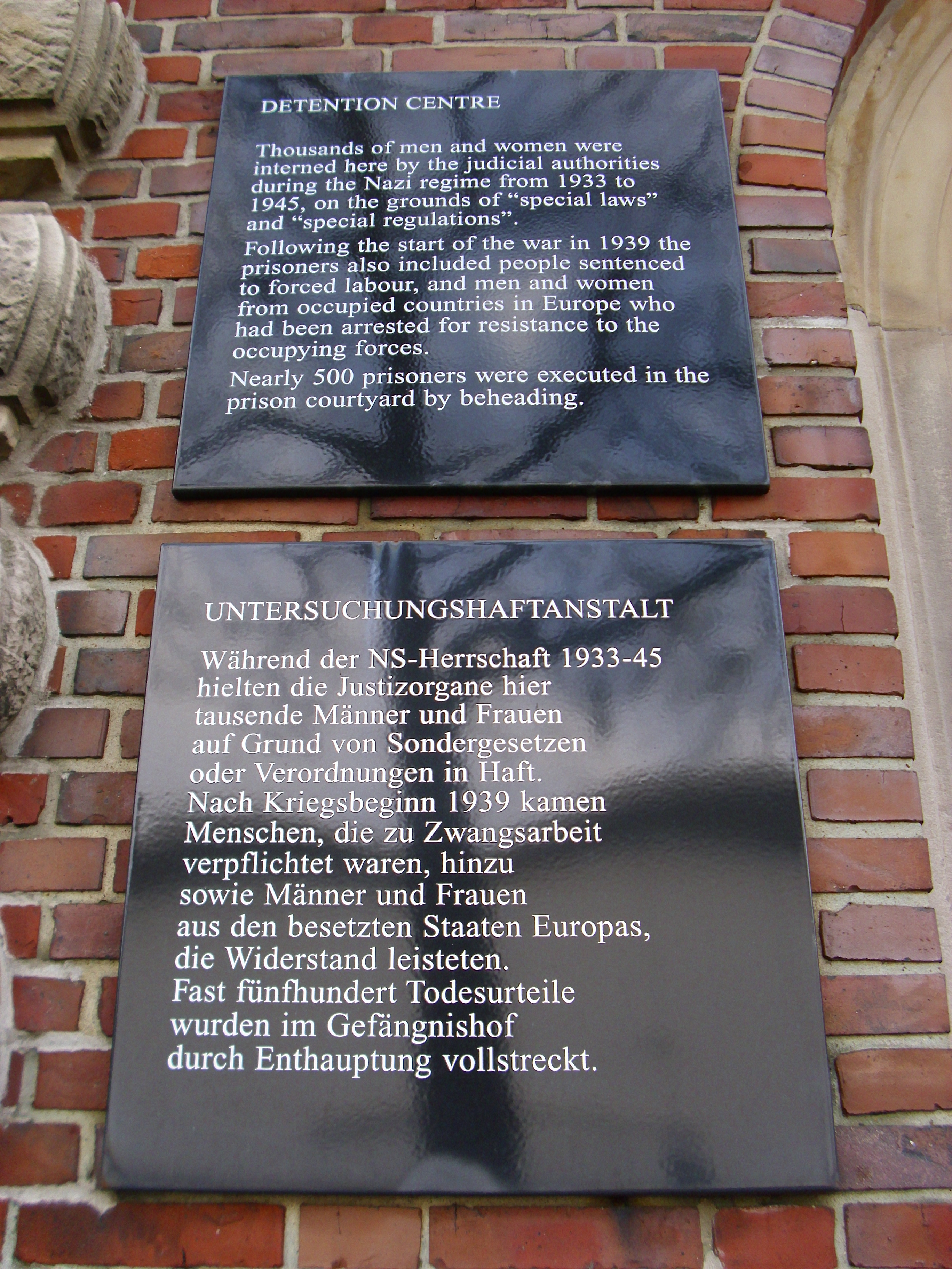 Commemorative plaque for interned and executed persons from 1933 to 1945 in Untersuchungshaftanstalt in Hamburg, Germany.